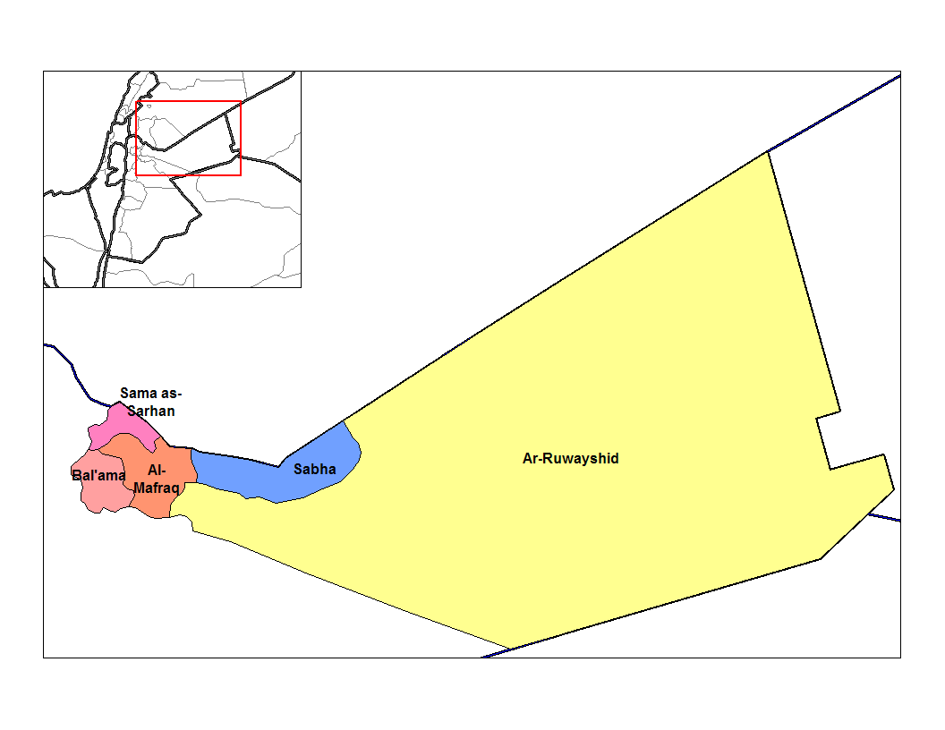 Map of the nahias of Mafraq governorate in Jordan. Created by Rarelibra 21:07, 27 December 2006 (UTC) for public domain use, using MapInfo Professional v8.5 and various mapping resources.